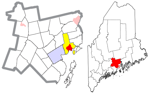 Map of the divisions of Waldo County, Maine, United States, with the census-designated place of Searsport highlighted in red. The city of Belfast is light blue; the town of Searsport, of which the census-designated place is a part, is yellow; other towns are white; and pink areas are census-designated places within other towns.